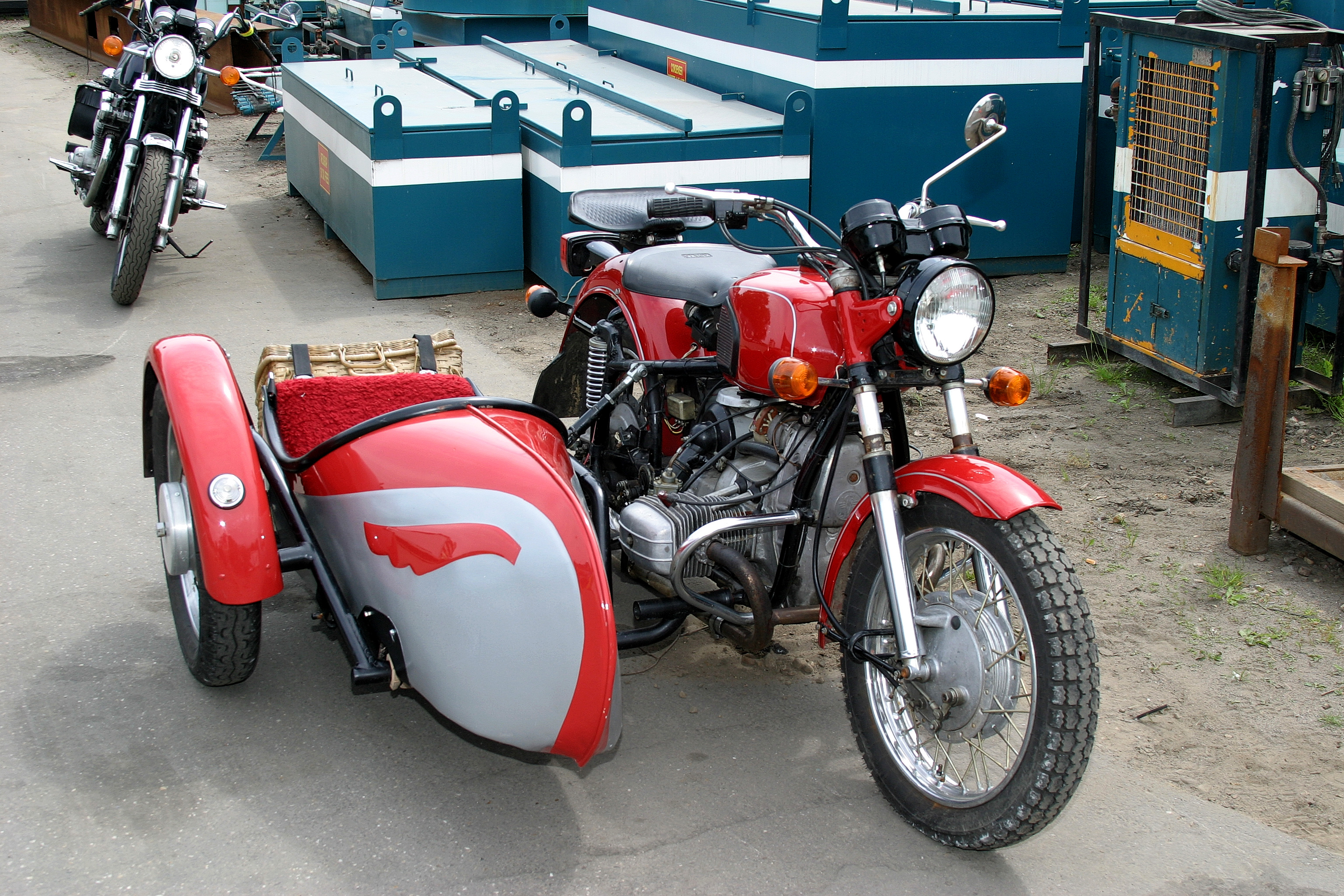 Dnepr motorcycle